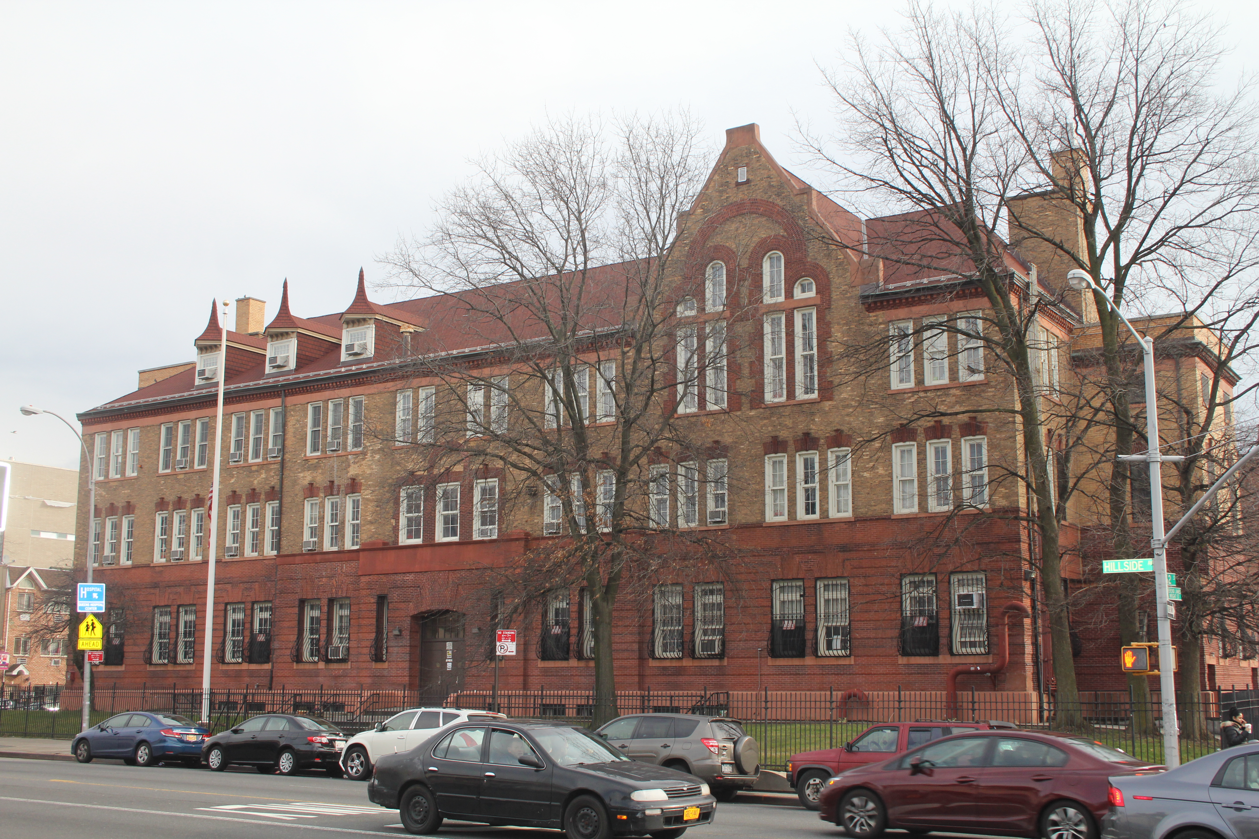 Former Jamaica High School Building, 162-02 Hillside Avenue, Jamaica, New York. A New York City designated landmark in the borough of Queens. Completed 1896, architect William B. Tubby. New building, also a NYC landmark, was built in 1925. Still a NYC public school known as Jamaica Learning Center.